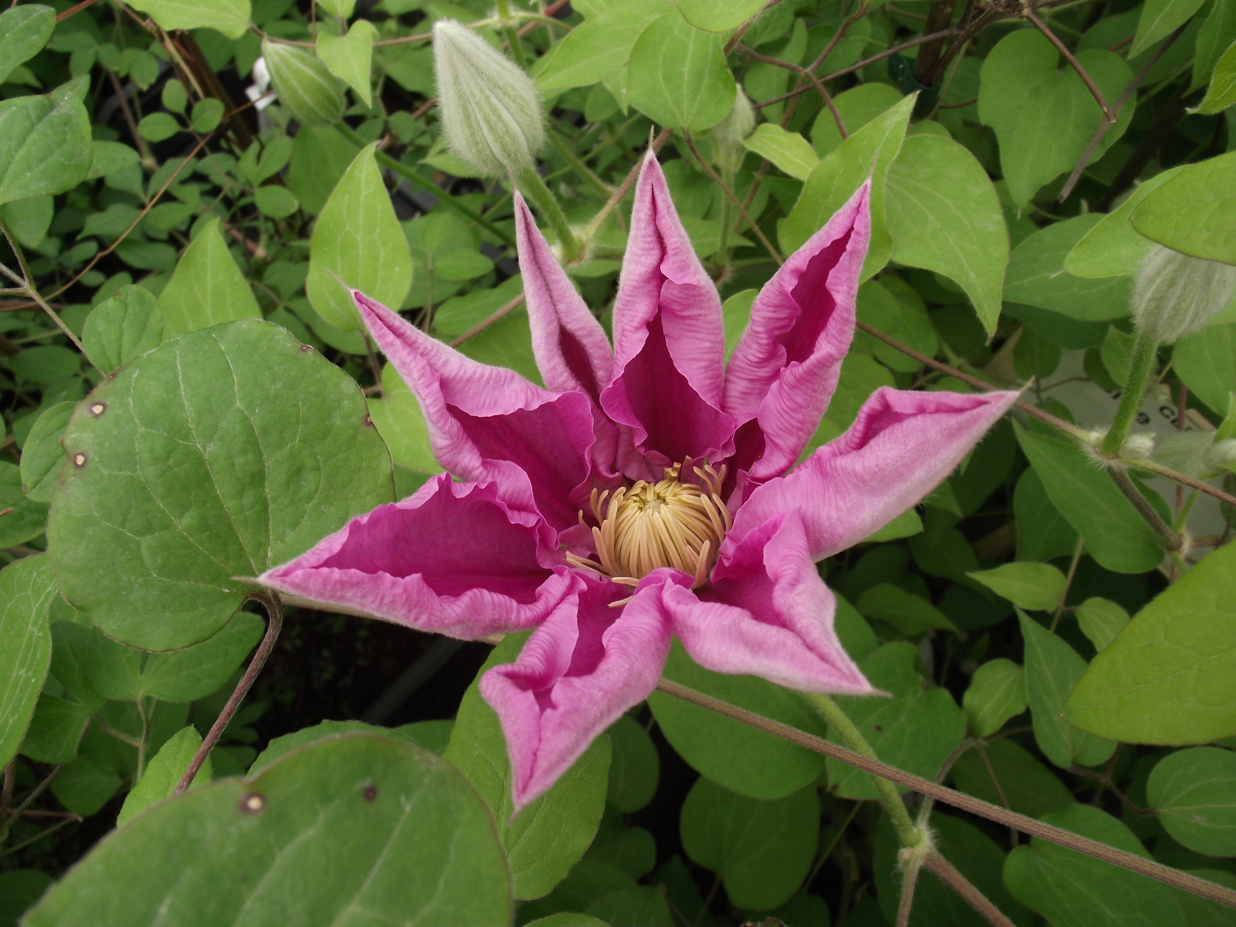 Clematis patens Abilène